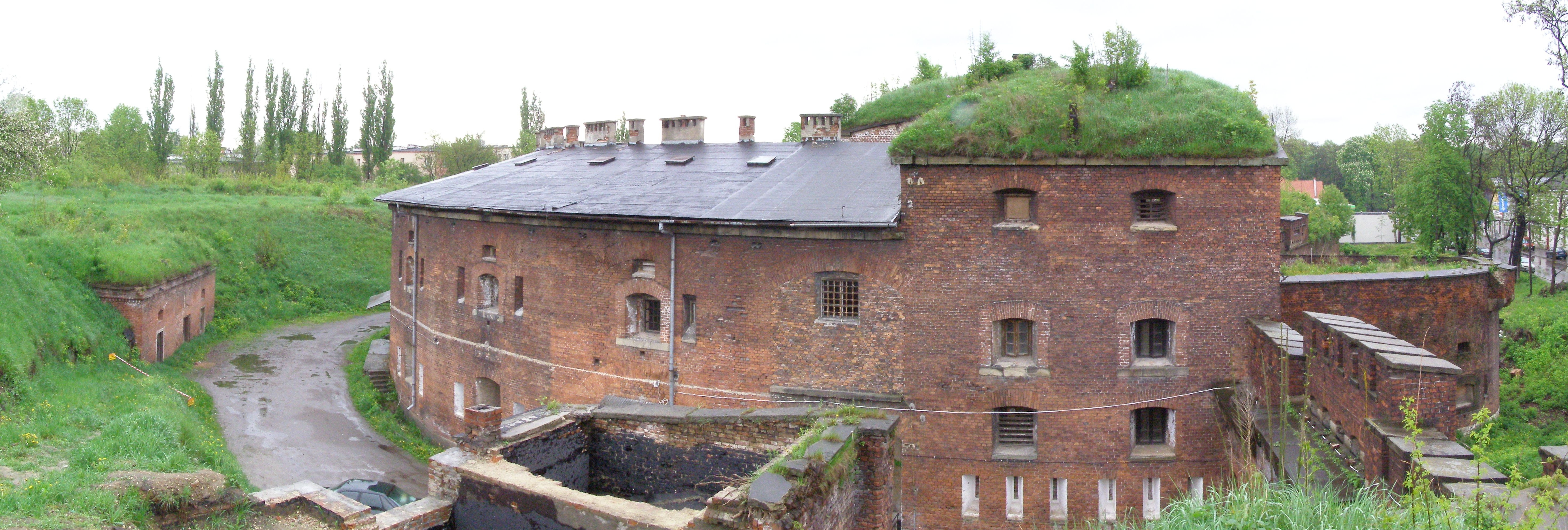 Kraków - fort No. 12 (IVa) of the Fortress of Kraków - Luneta Warszawska